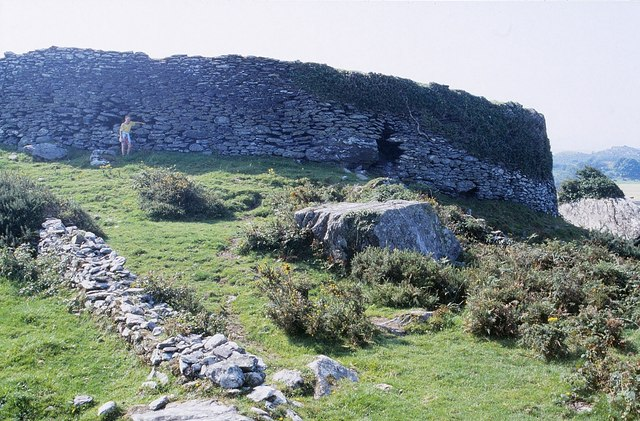 Cathair D�nall (Caherdaniel) Ring Fort, near to Caherdaniel, Kerry, Ireland. The ring fort at Caherdaniel is particularly well preserved with massive stone walls. It stands just to the east of a small river, with the remains of another ring fort on the other side of the valley.